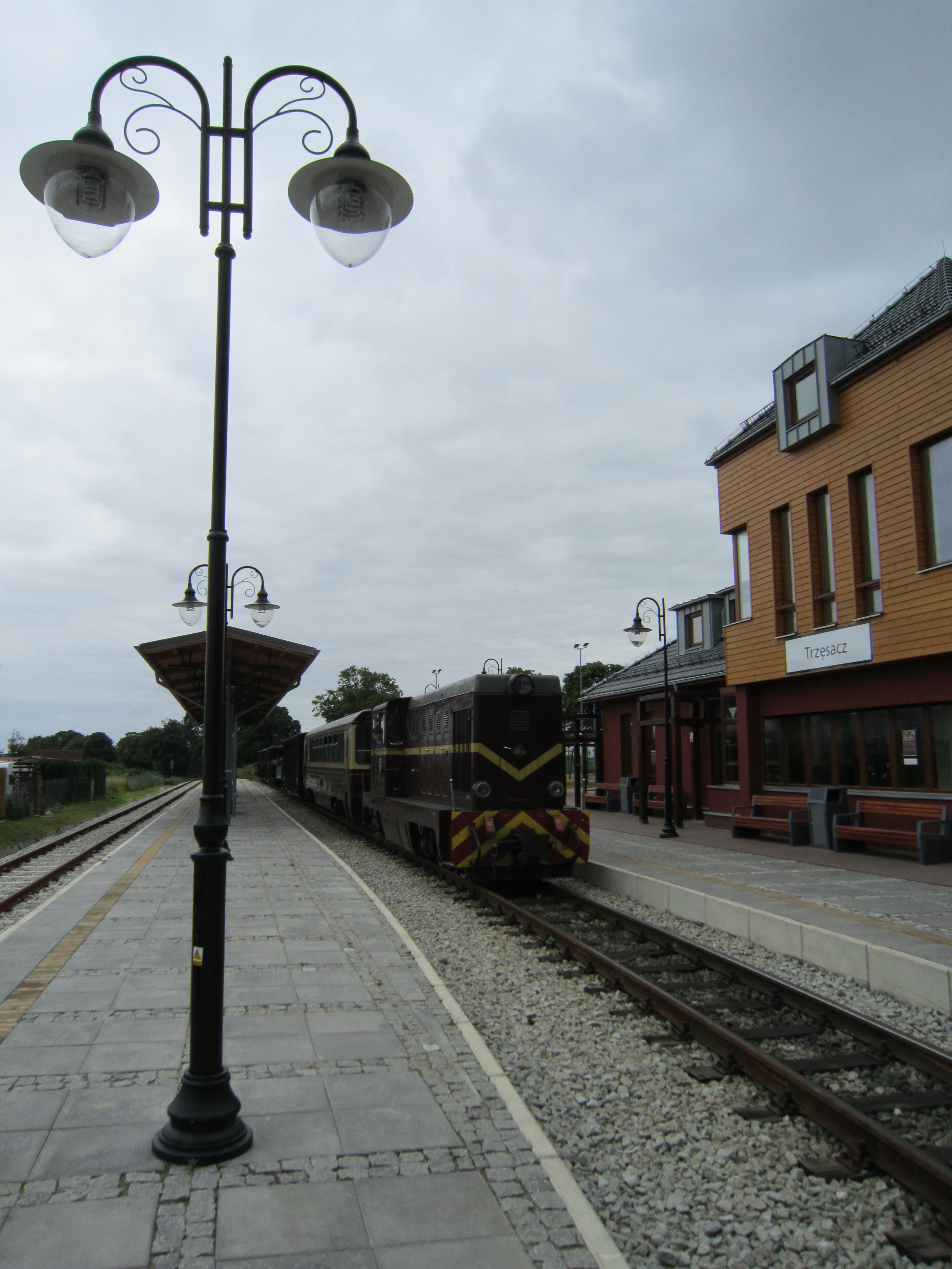 Trzęsacz train station of the Nadmorska Kolej Wąskotorówka 2015